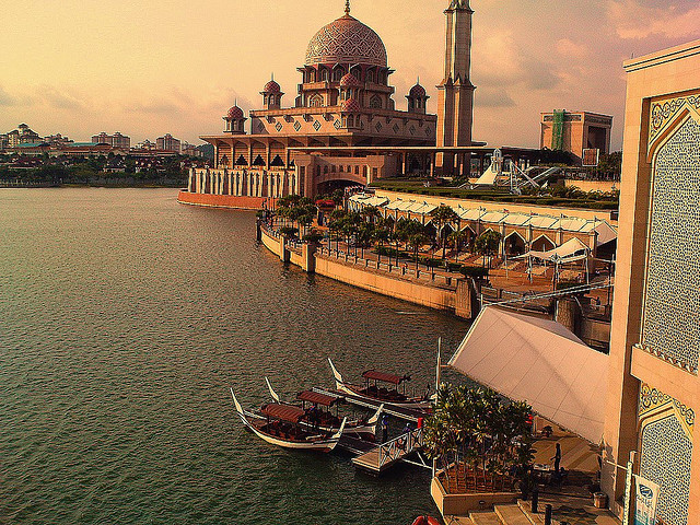 Putra Mosque, Putrajaya, Malaysia